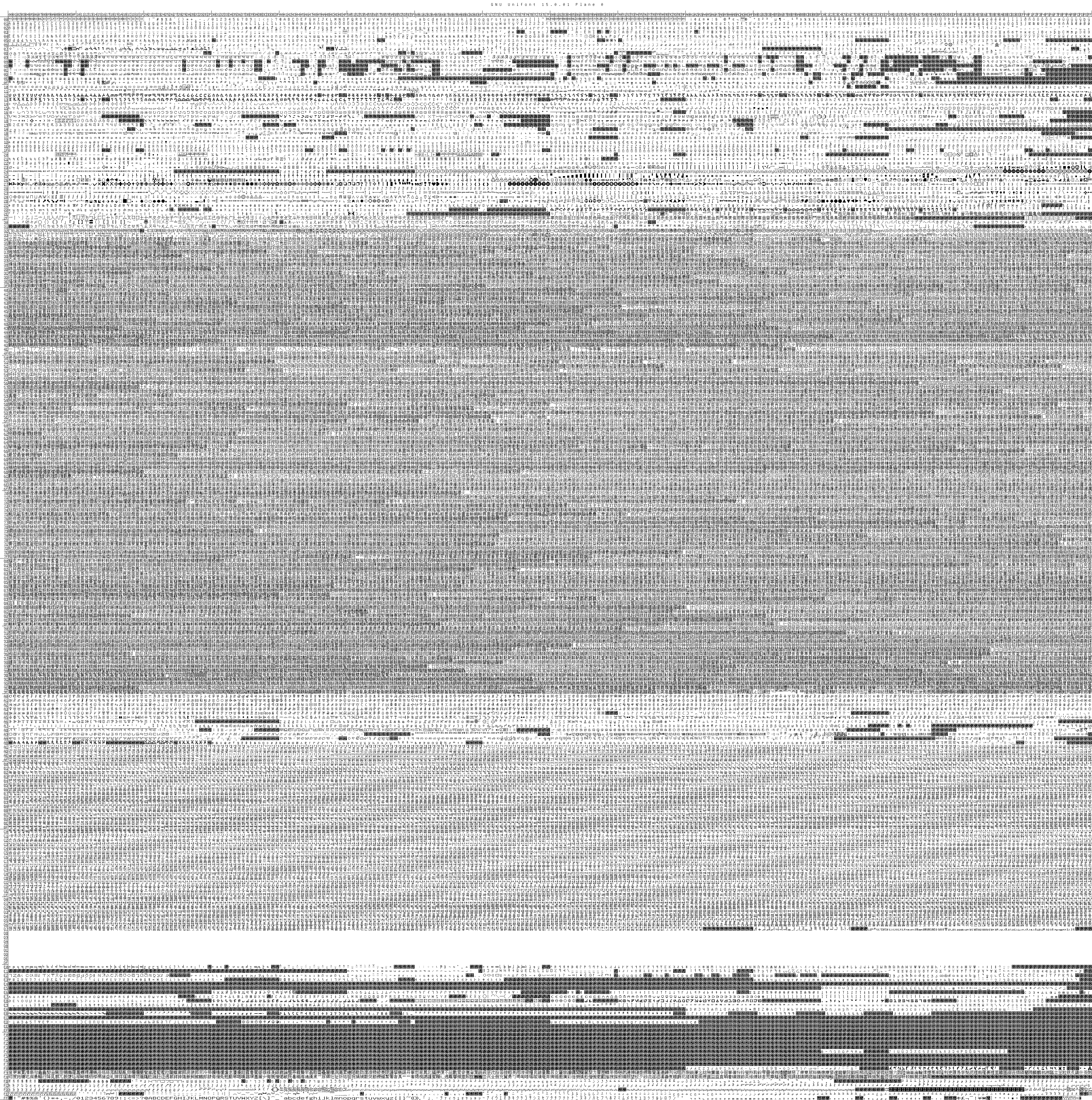 Map of GNU Unifont, which encodes [only] the Basic Multilingual Plane (code points 0000-FFFF) as bitmaps. Displayed as 17x17 cells, in a 256x256 grid.